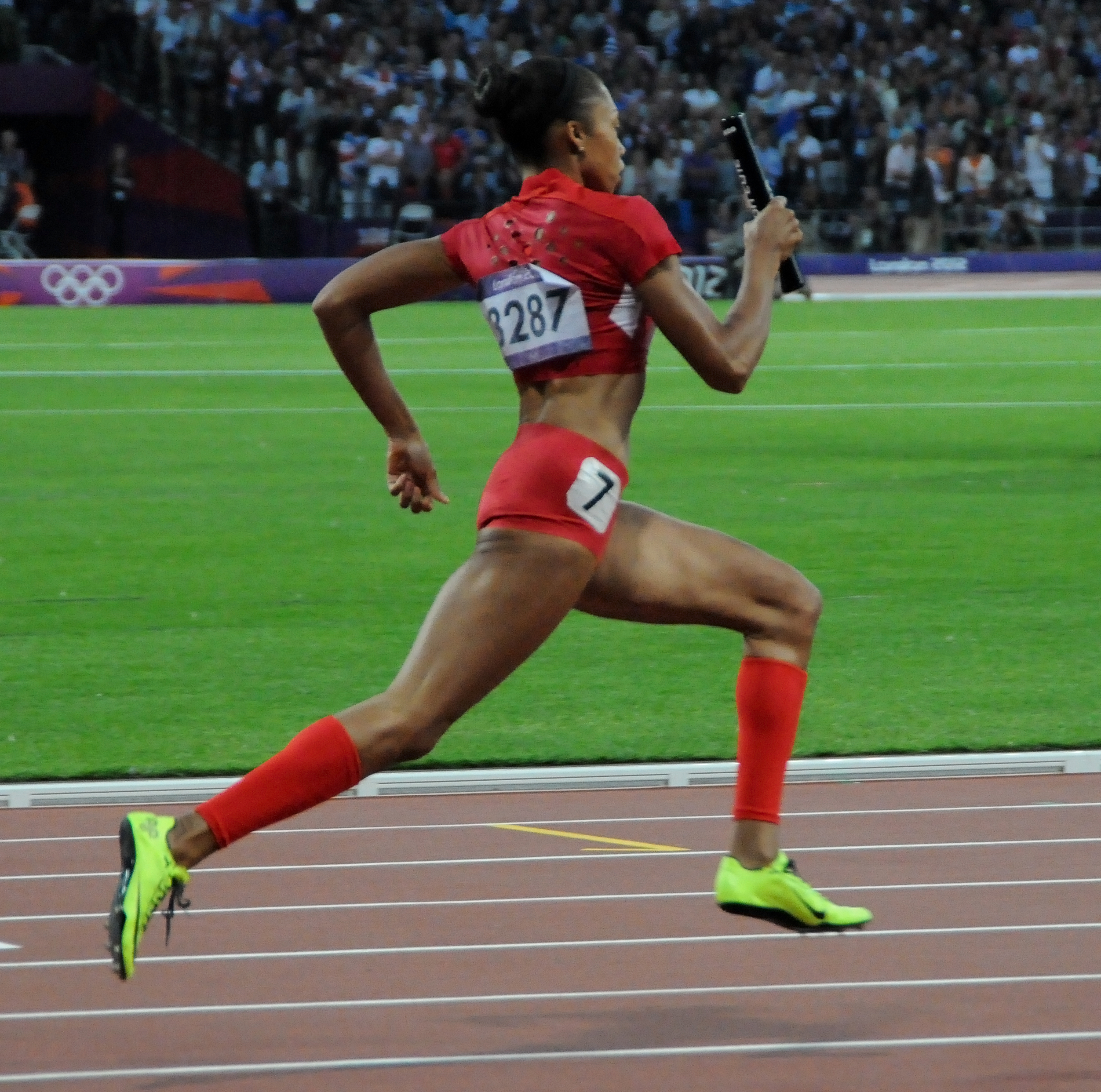 Allyson Felix running second relay in the 4x400 of the 2012 London olympic games.